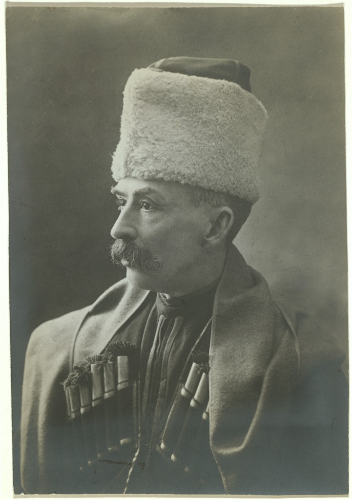 George Kennan wearing Georgian cossak uniform, half-length portrait, facing left